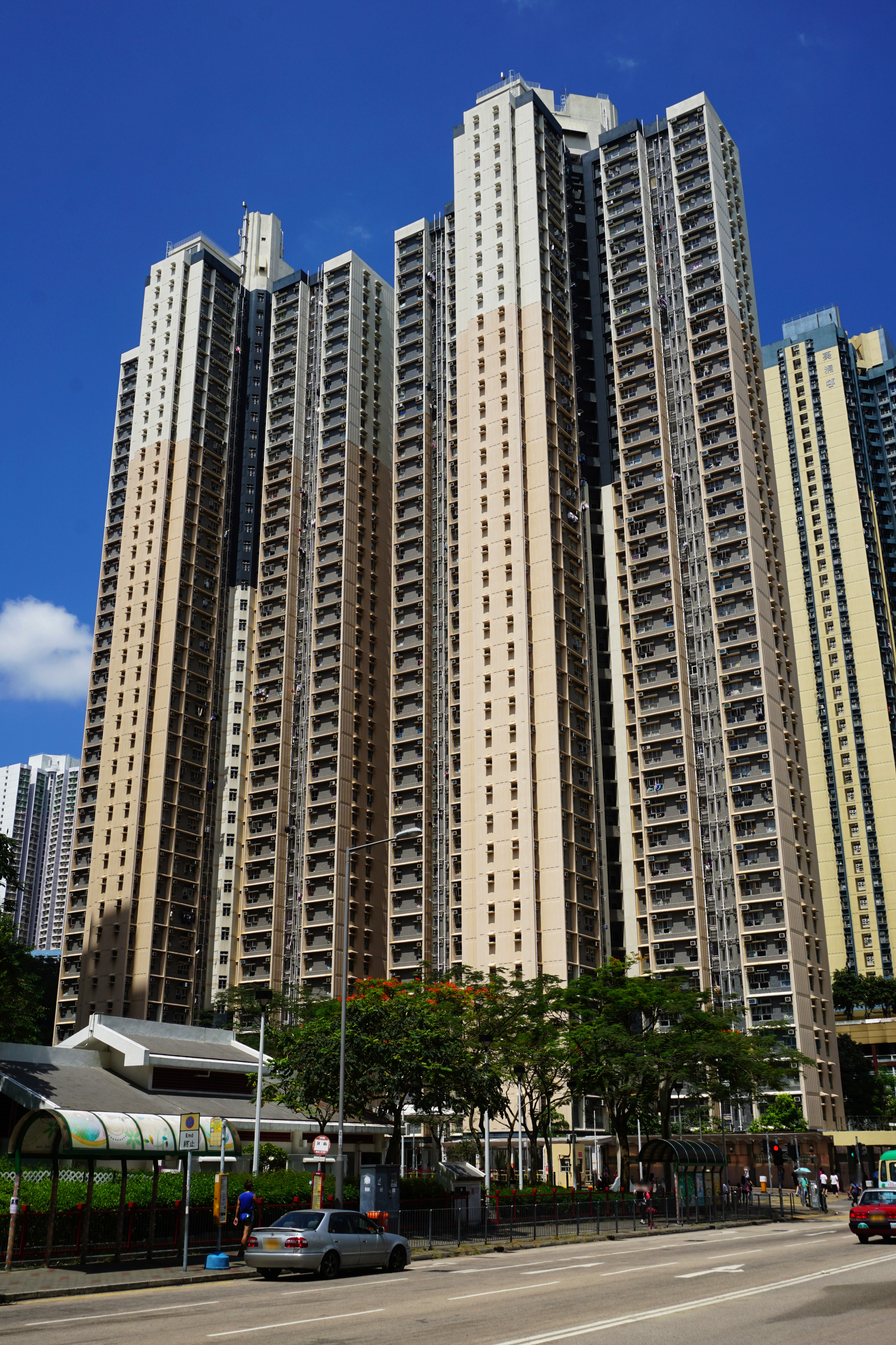 Kwai Fuk Court in Kwai Chung, Hong Kong.